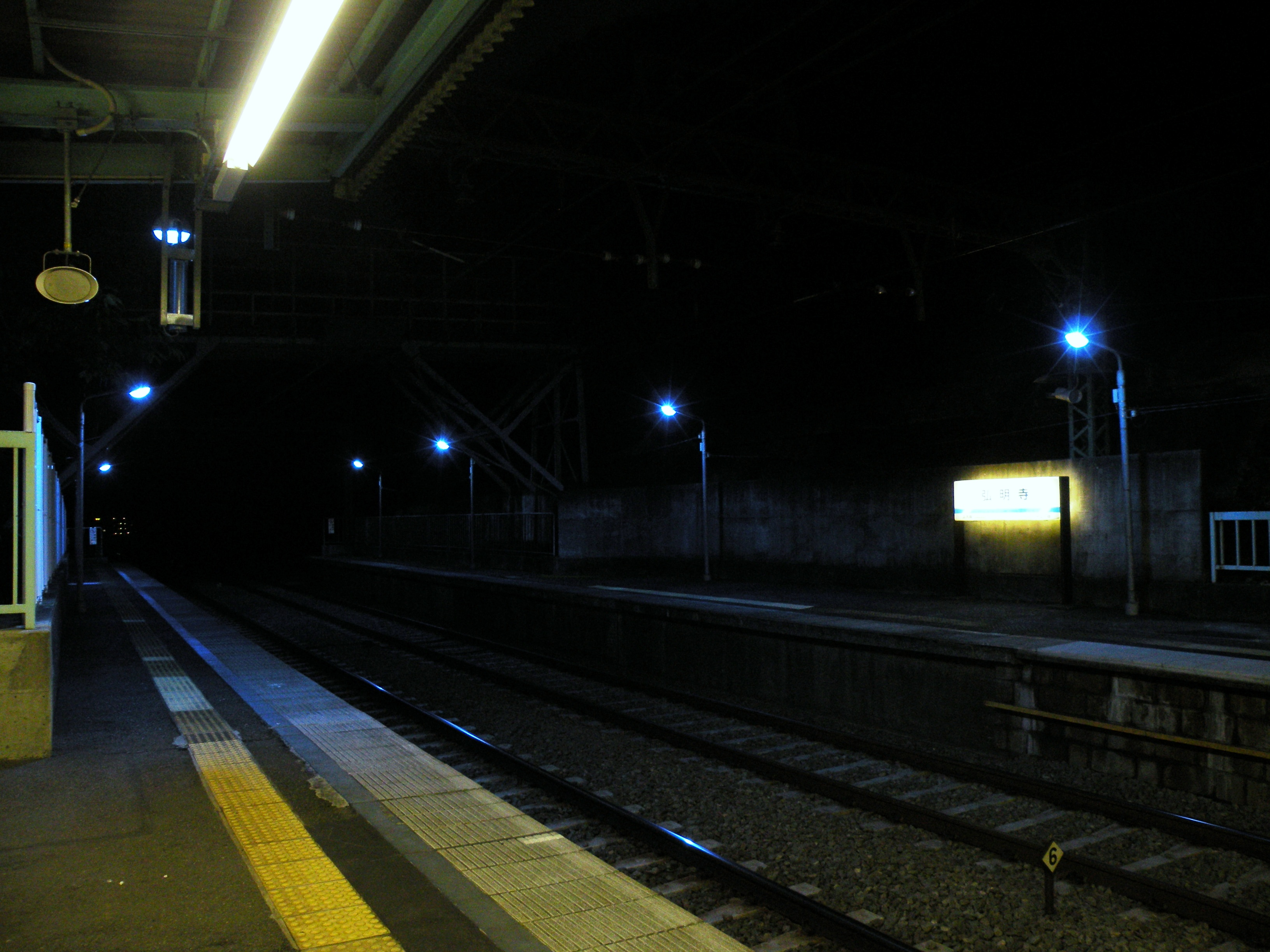 Keikyu Keikyu Main Line,Keikyū Gumyōji Station-platform (Kanagawa, Japan)